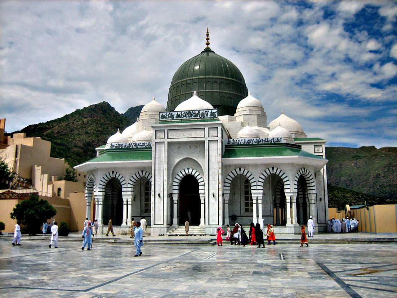 Ghamkol Shareef